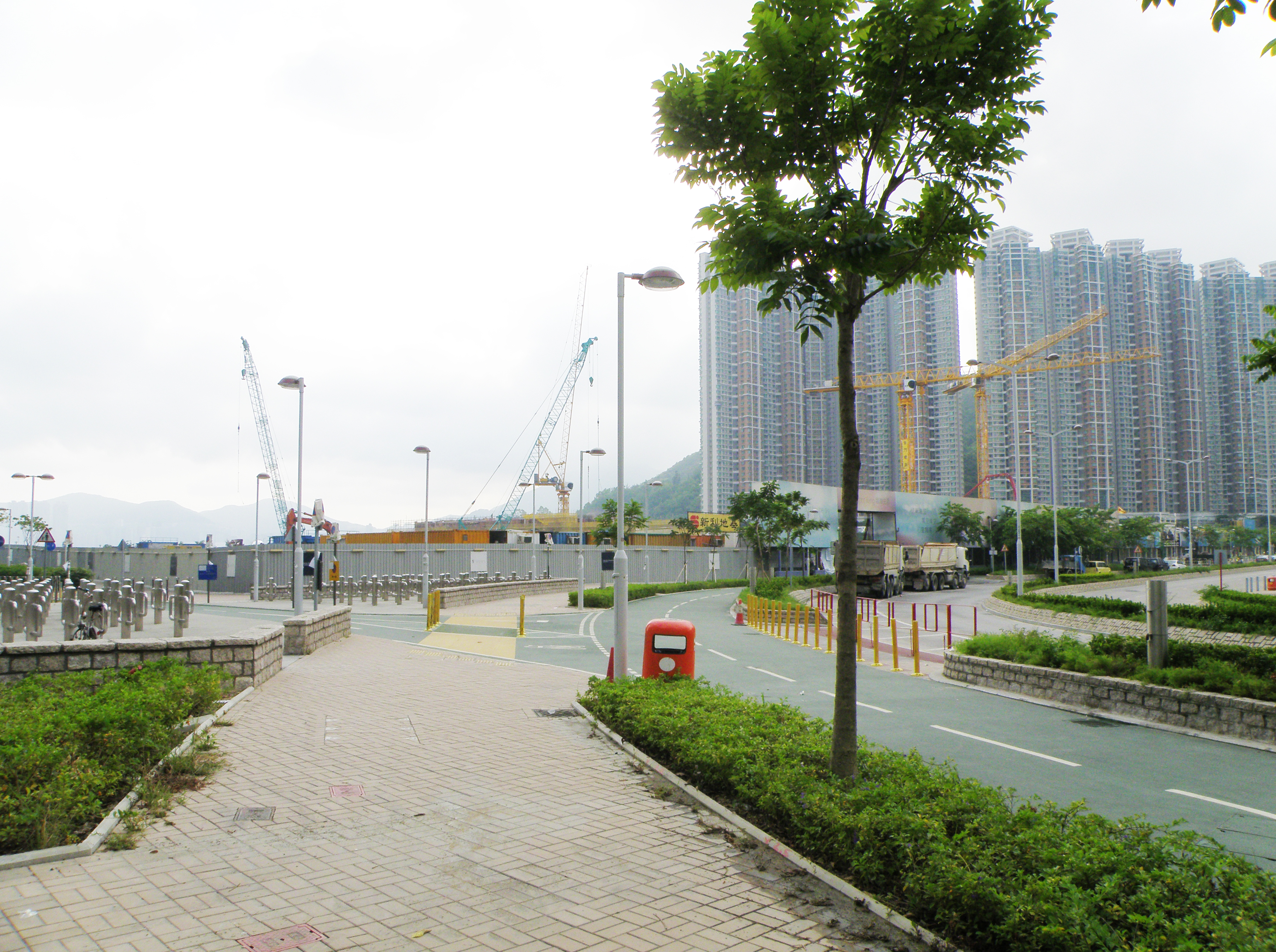 Alto Residences in Tseung Kwan O, Hong Kong.